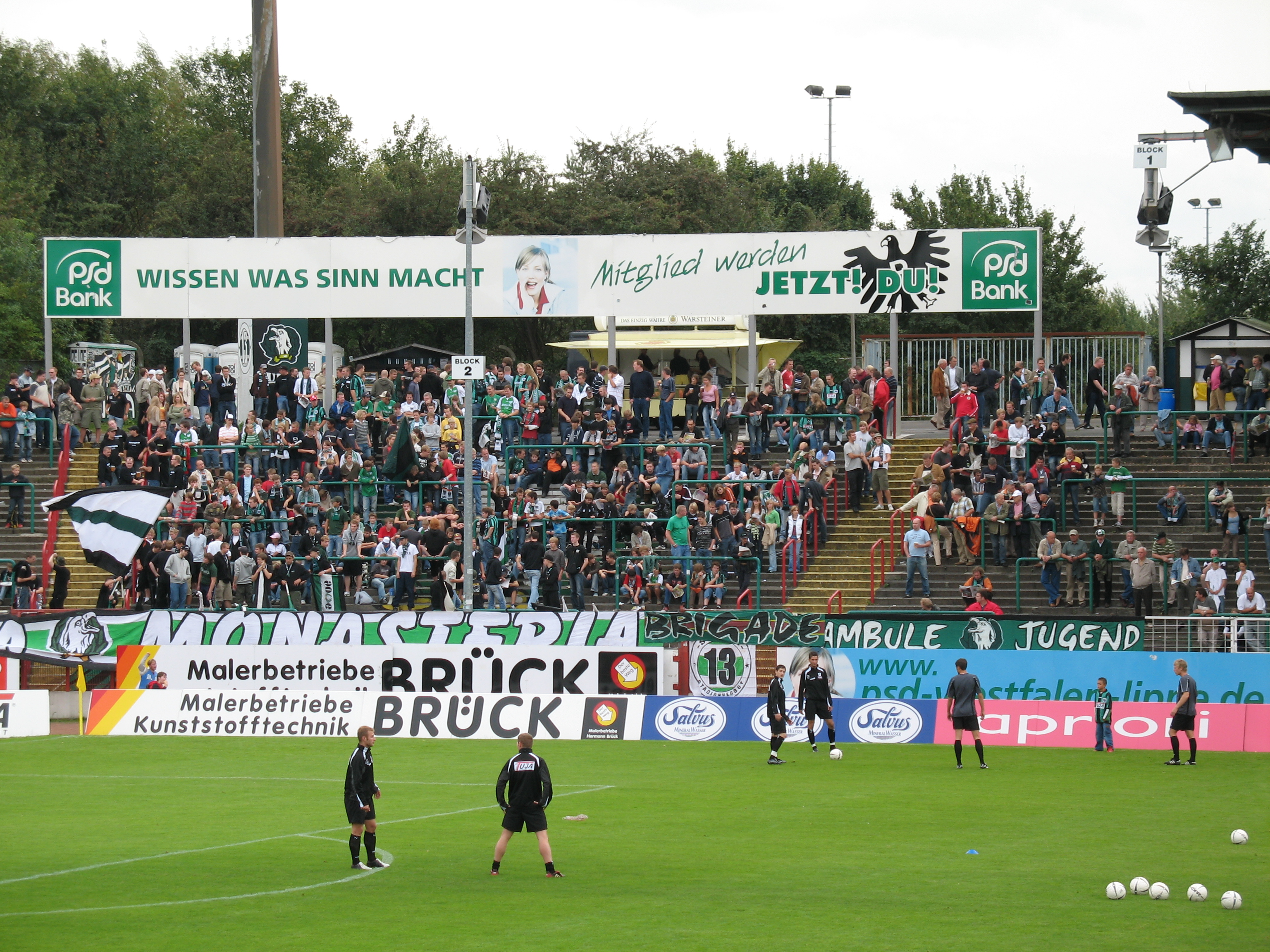 SC Preußen Münster fans support their team